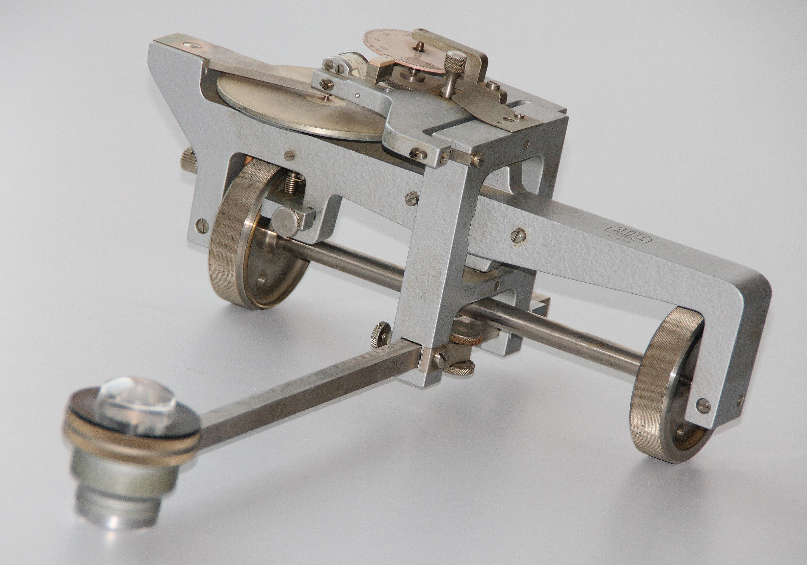 Planimeter for the graphical calculation of long areas out of maps (lanes).